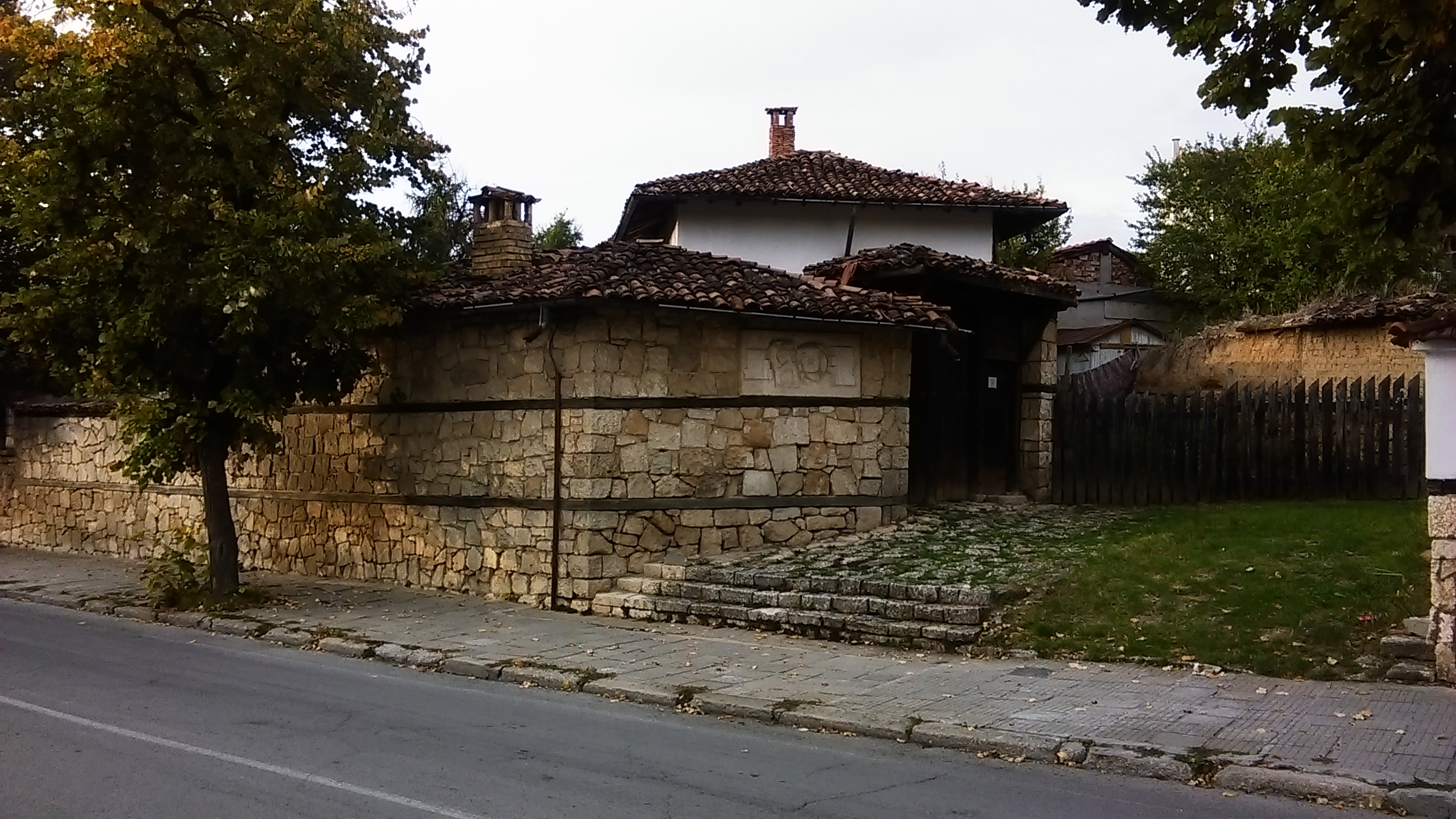 Stanka Nikolica Spaso-Elenina's House Museum in Razgrad